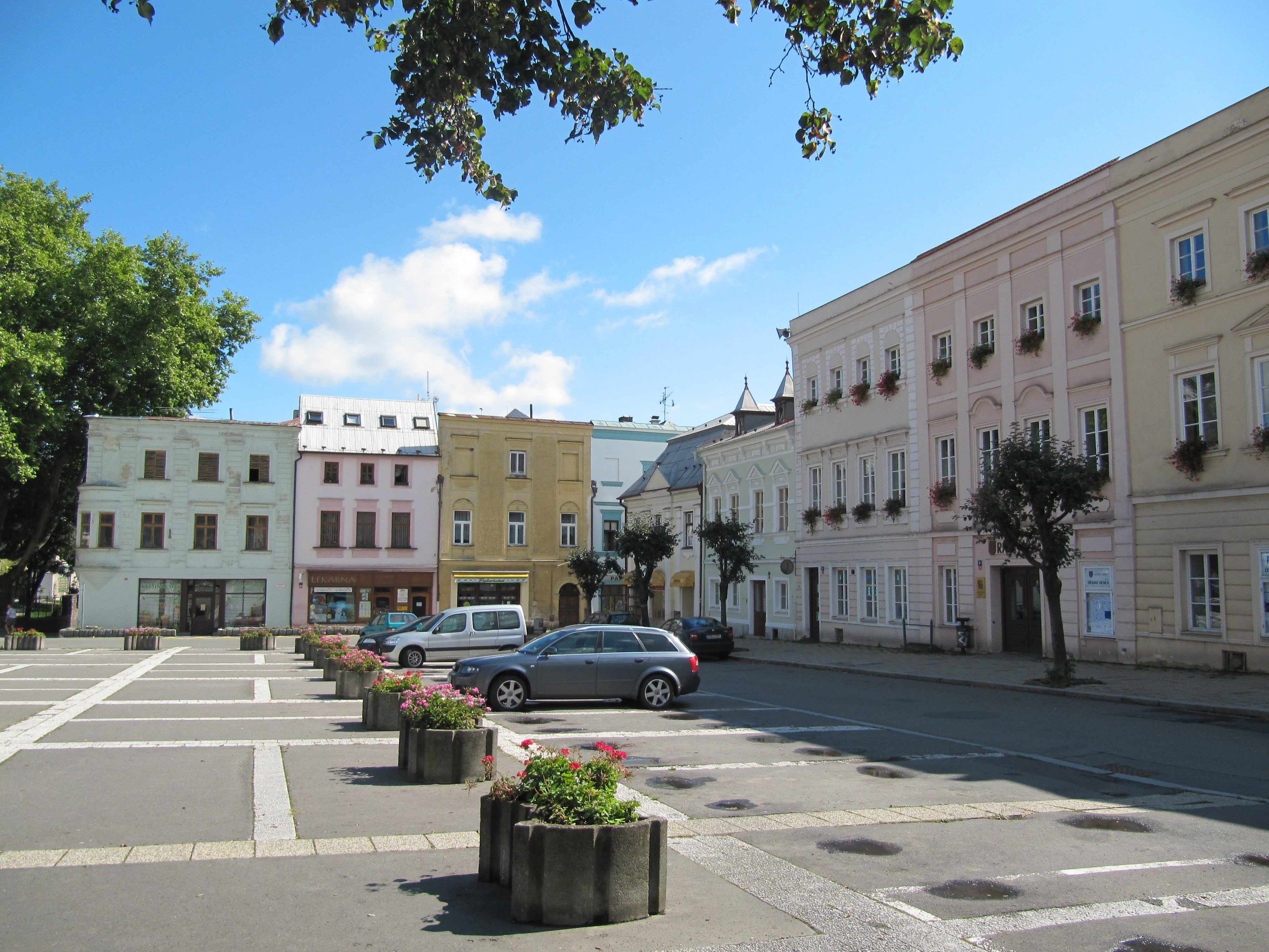 Odry in Nový Jičín District, Czech Republic. Square Masarykovo náměstí, east.